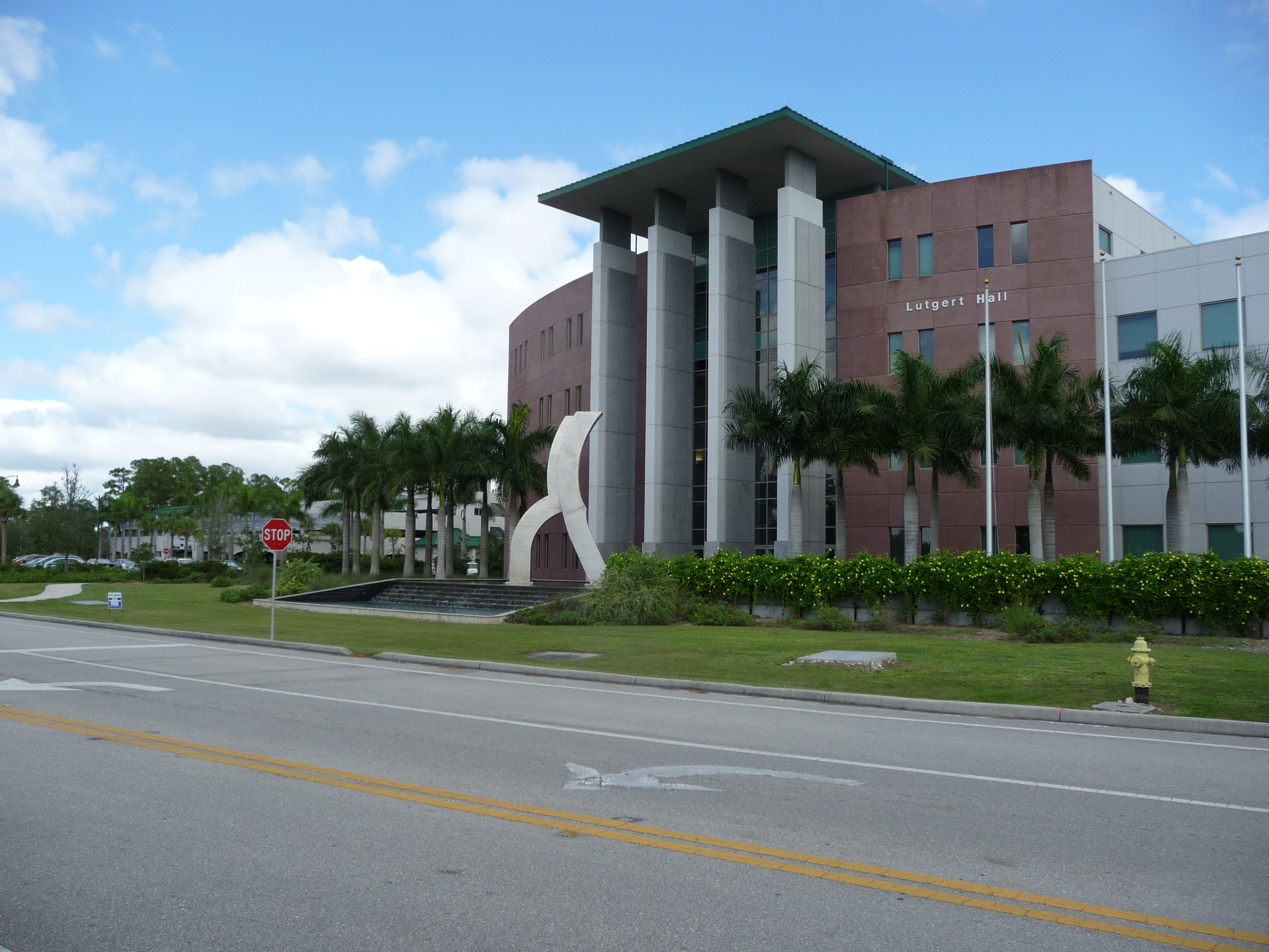 I took this picture of Lutgert Hall in the Fall of 2013.